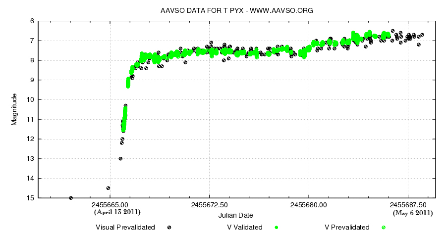 AAVSO lightcurve of 2011 eruption.